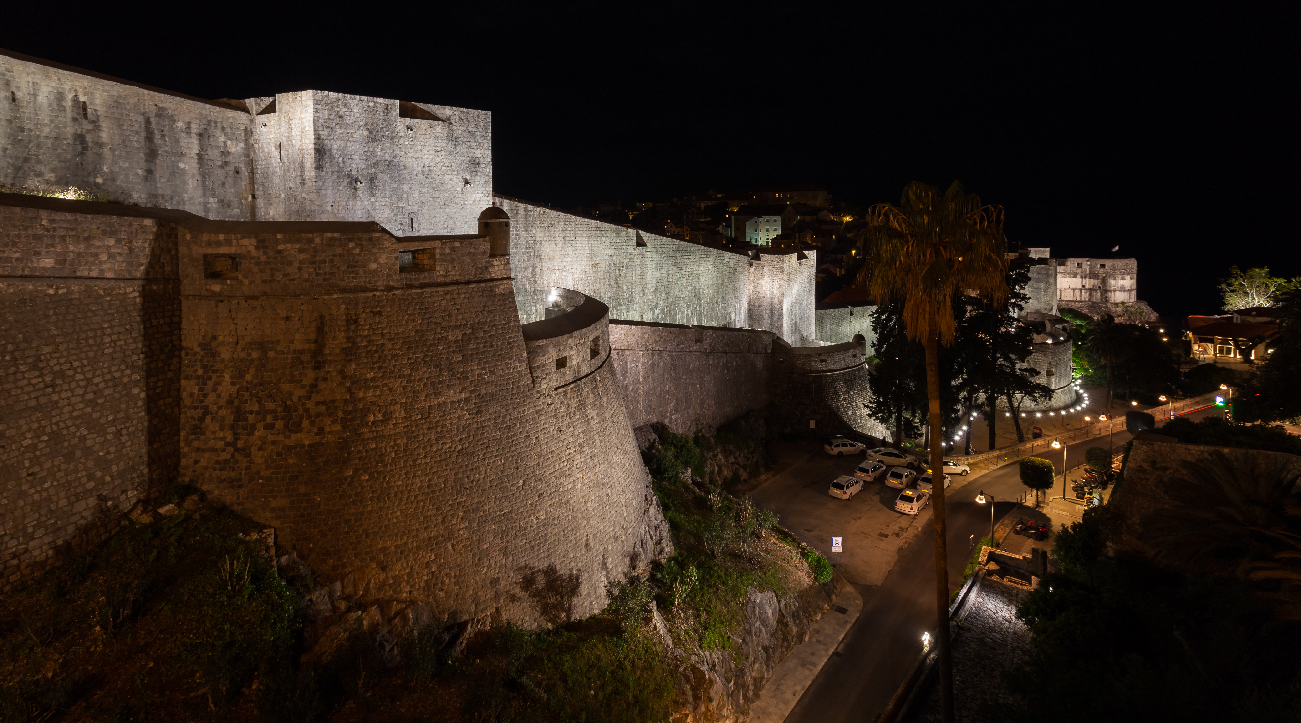 Old city of Dubrovnik, Croatia